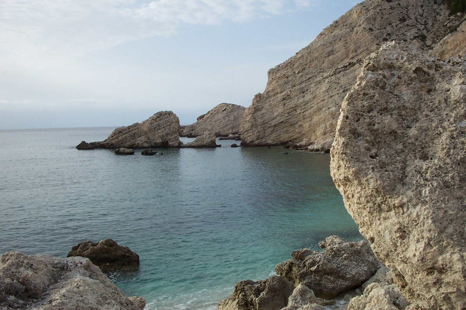 Petani Beach, Kefalonia, Greece.